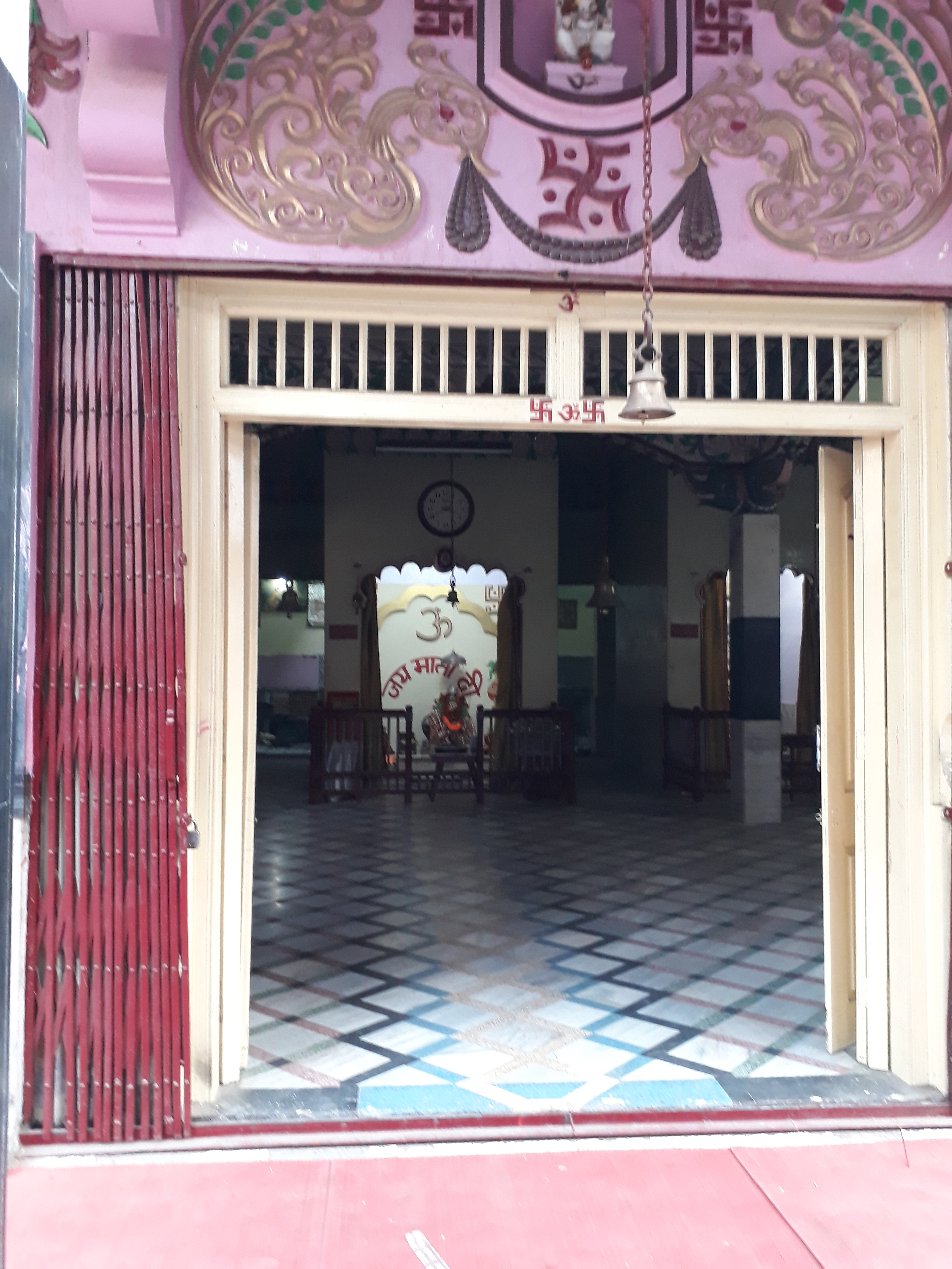 Entrance of Dimapur Kalibari